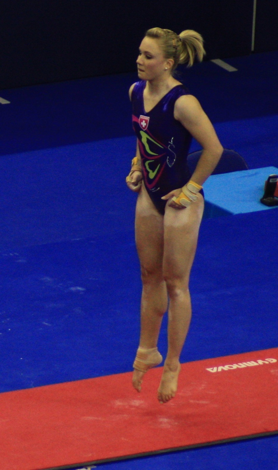 Ariella Kaeslin preparing for her first attempt in the female vault final of the 2009 World Artistic Gymnastics Championships.